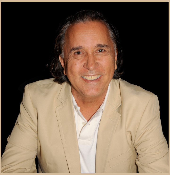 Portrait of D. Moran Chavez